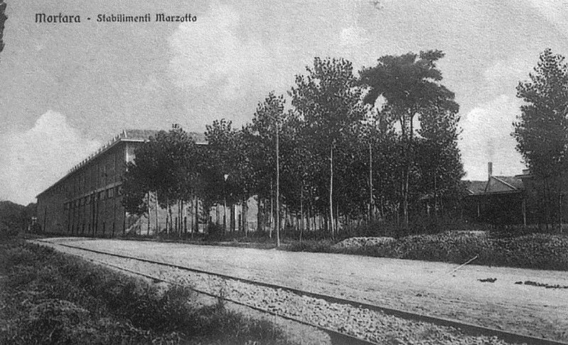 Mortara, Marzotto works in 1921